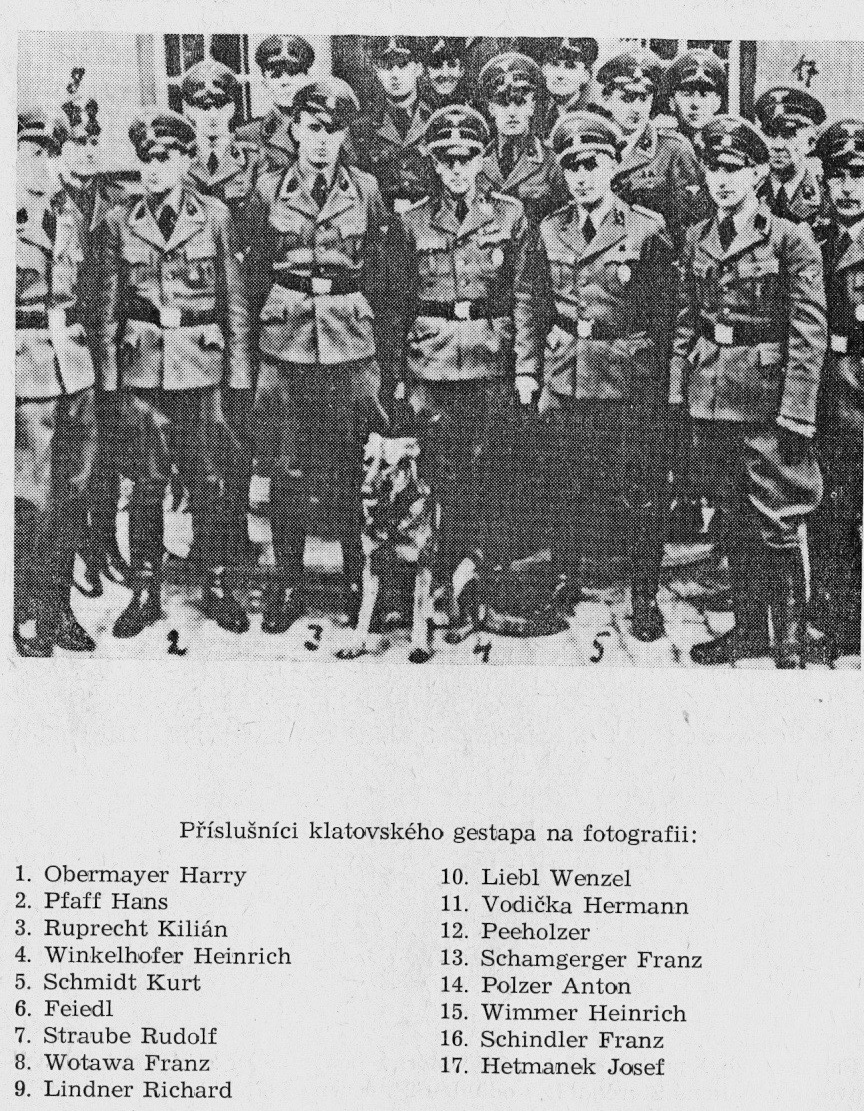 Members of the Geheime Staatspolizei in Klatovy 1939-1945